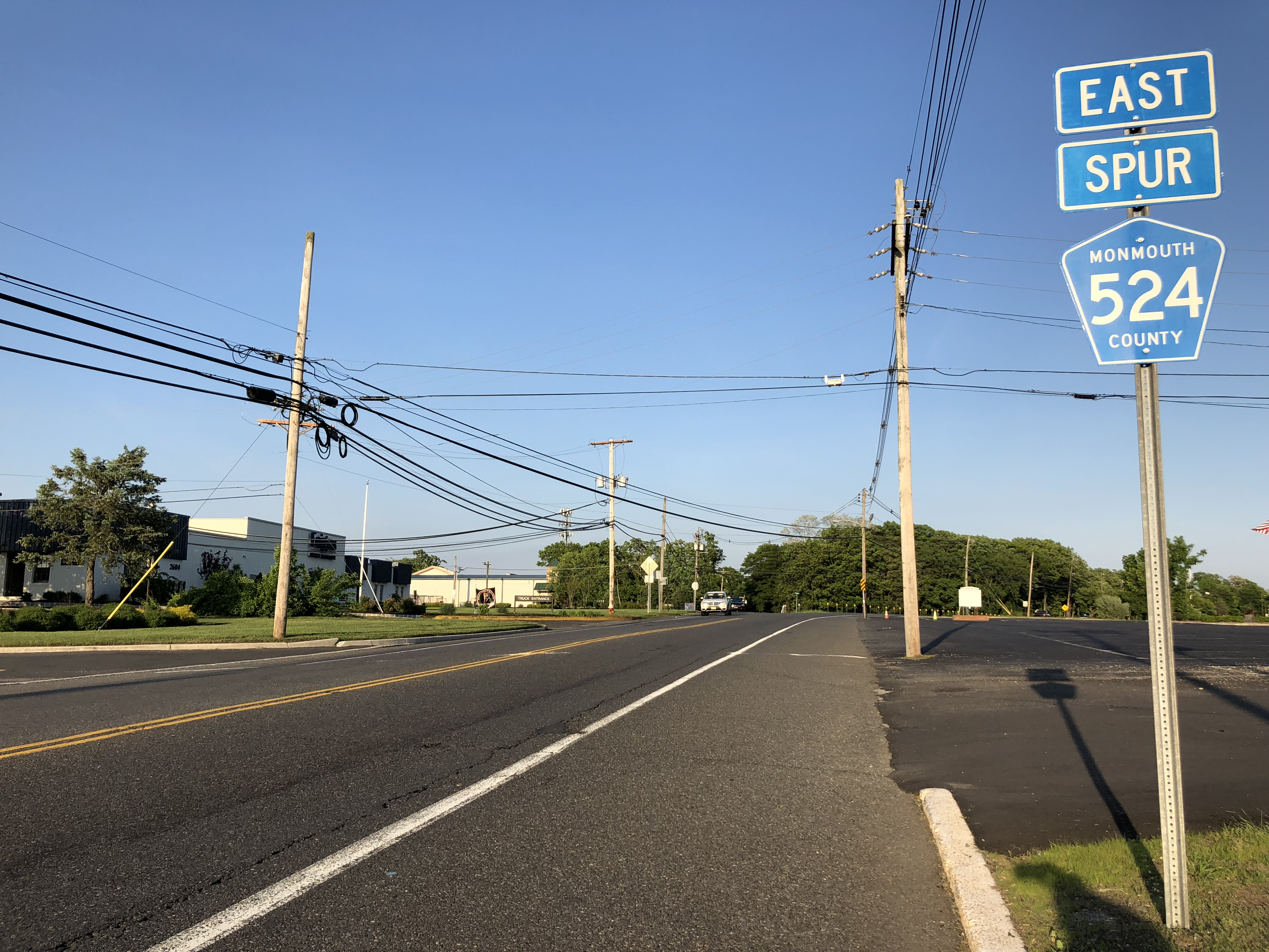 View east along Monmouth County Route 524 Spur (Atlantic Avenue) just east of New Jersey State Route 34 in Wall Township, Monmouth County, New Jersey